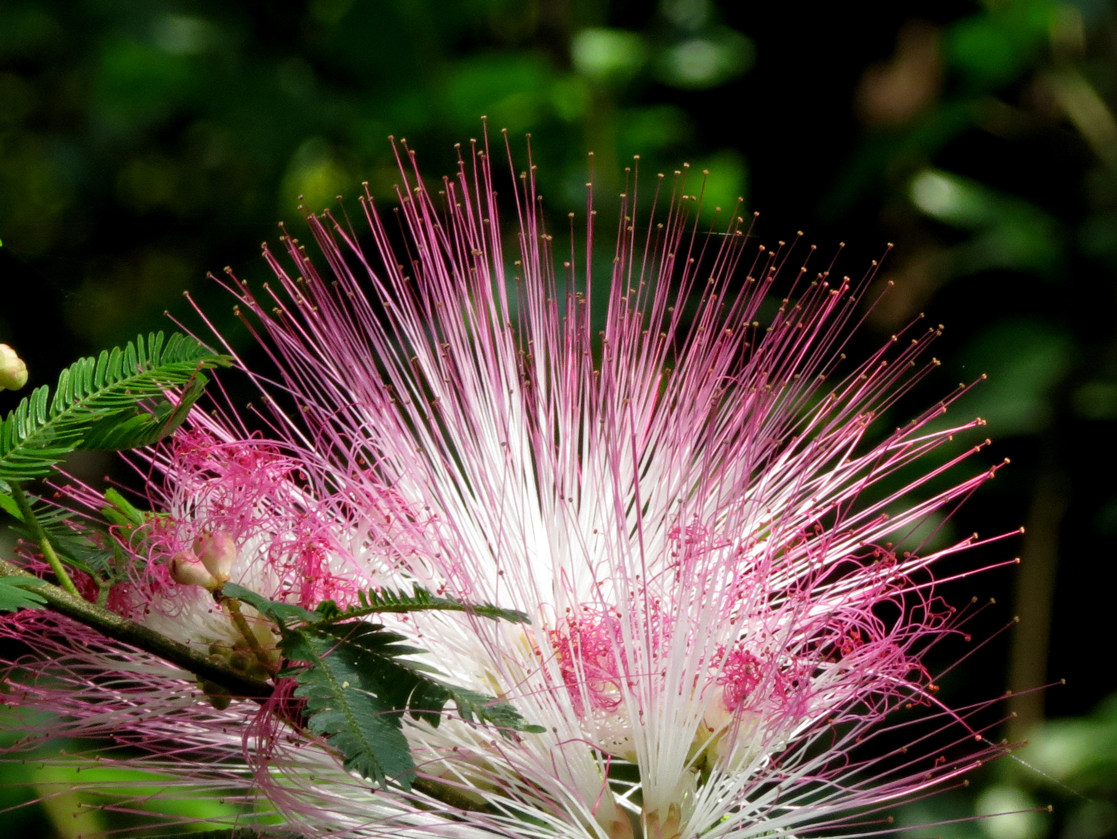 Calliandra brevipes or Pink Powder Puff plant seen in Hebbal lake in Bangalore. It has a nice and mild pleasent smell.